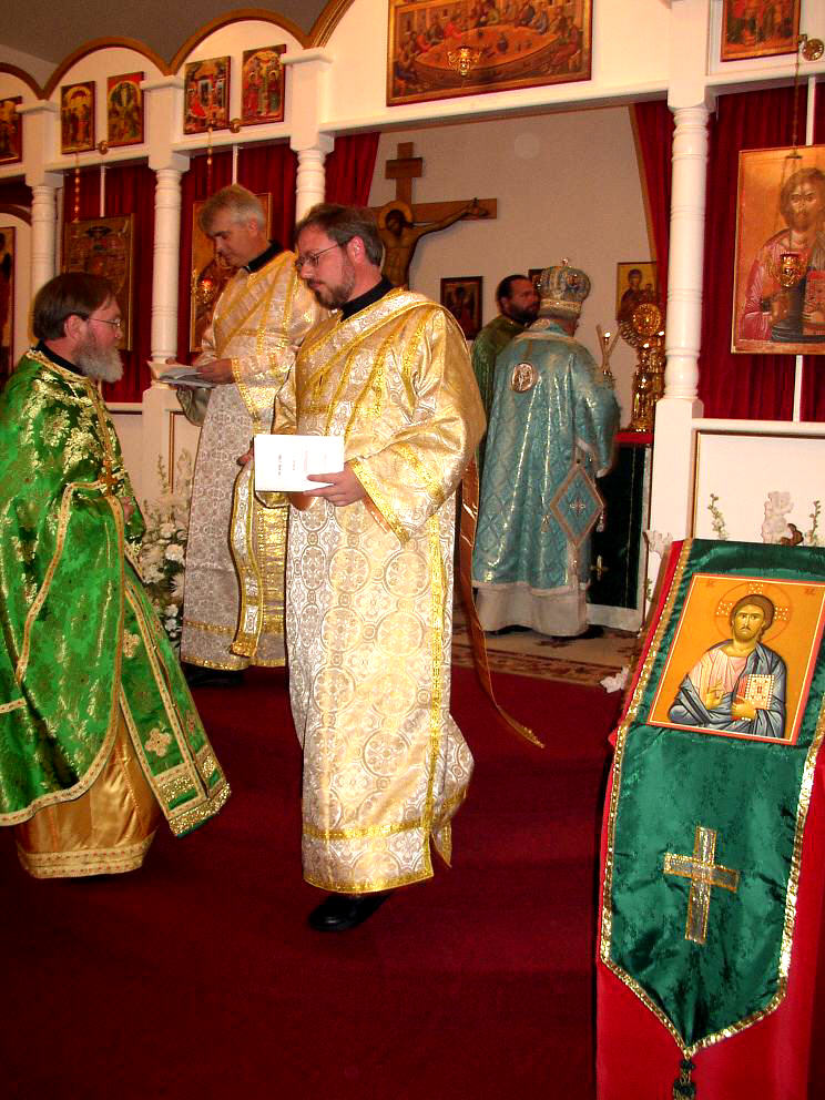 Clergy at All Saints' Antiochian Orthodox Church, Raleigh, United States (L to R): priest (fr. Nicholas Sorensen), two deacons, bishop.